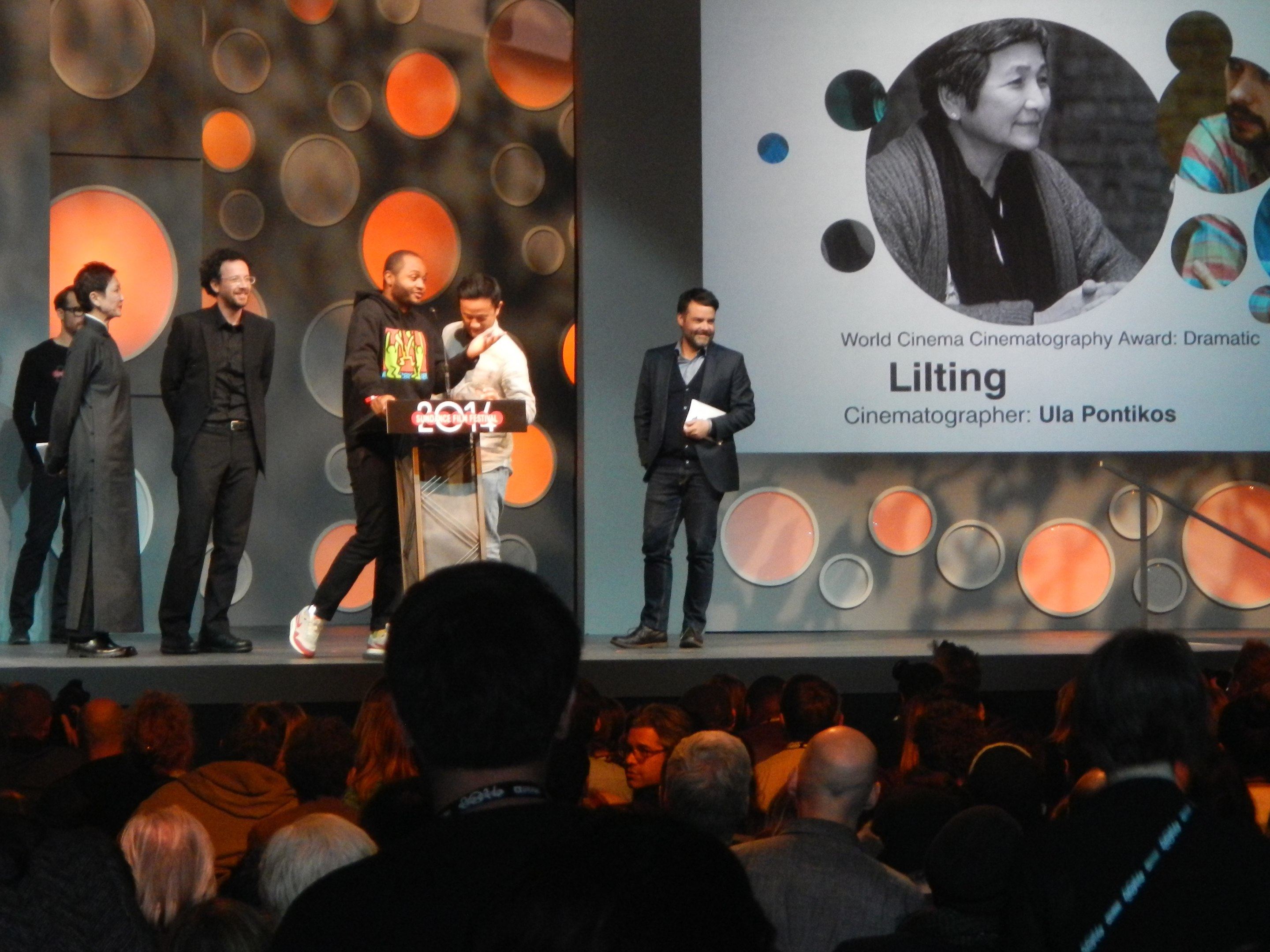 Sundance 2014 Awards Ceremony